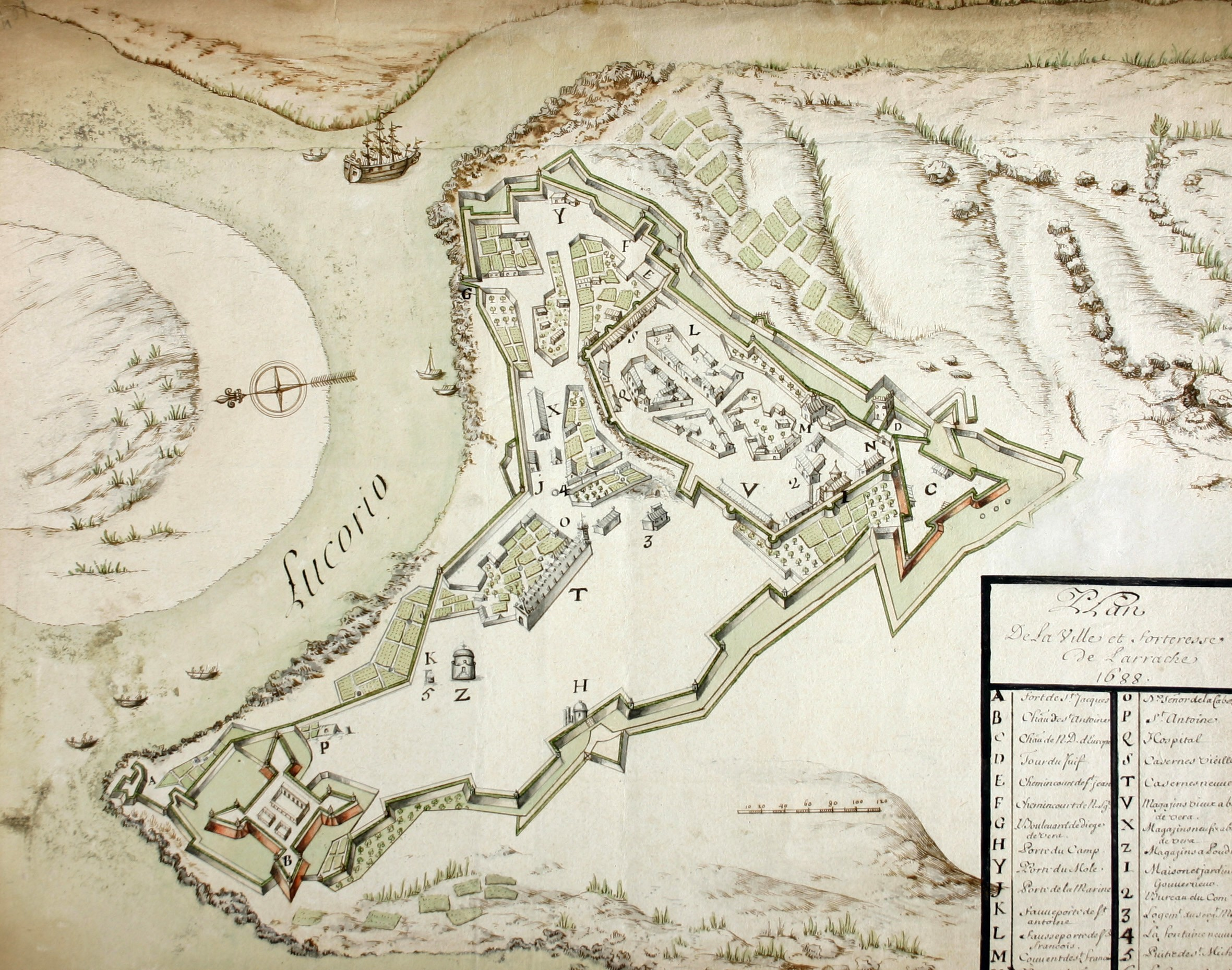 Fortification of larache